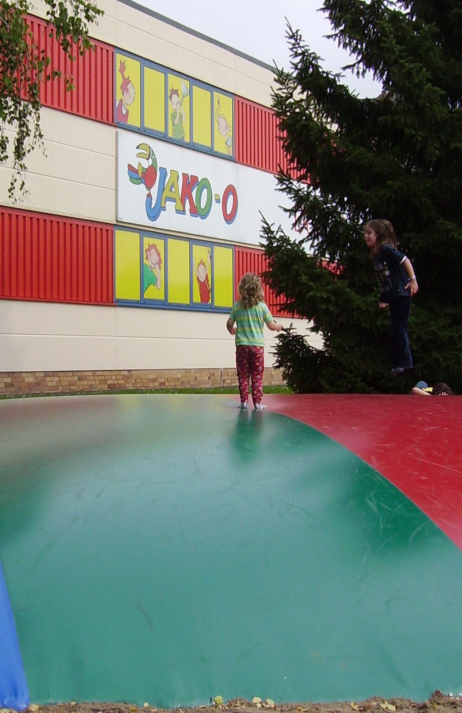 Jako-o in Bad Rodach (Bavaria, Germany)